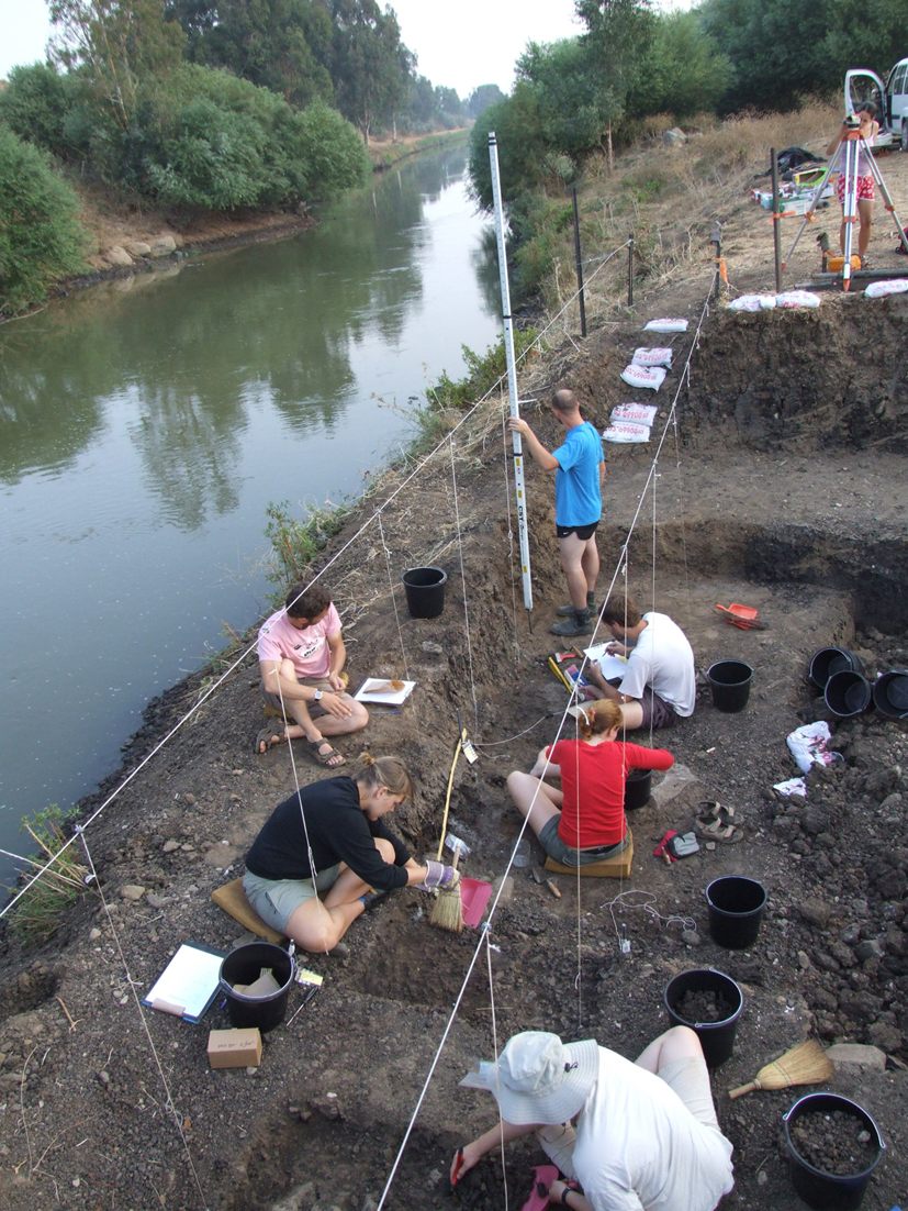 Nahal Mahanayeem excavation 2008